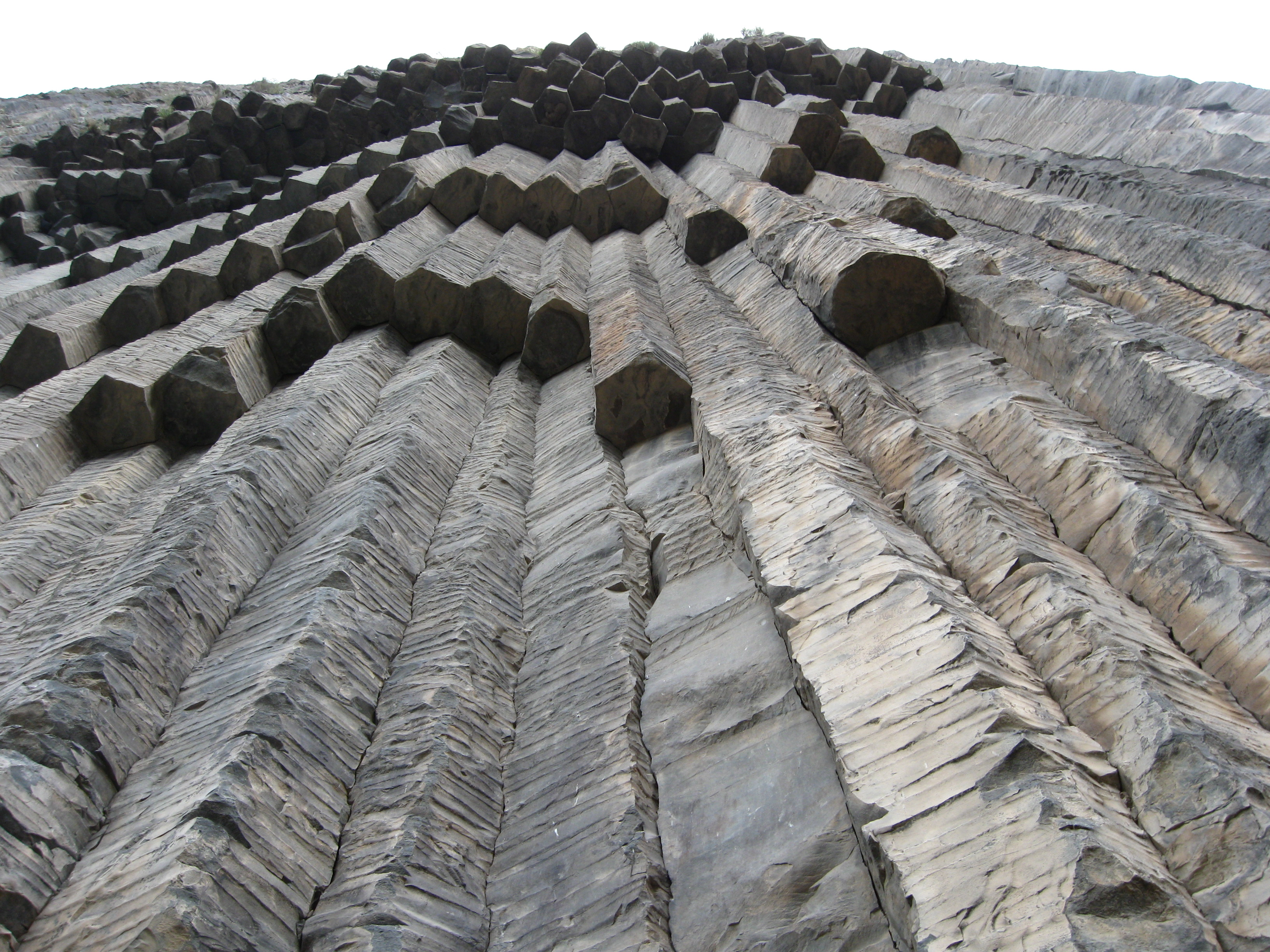 Garni